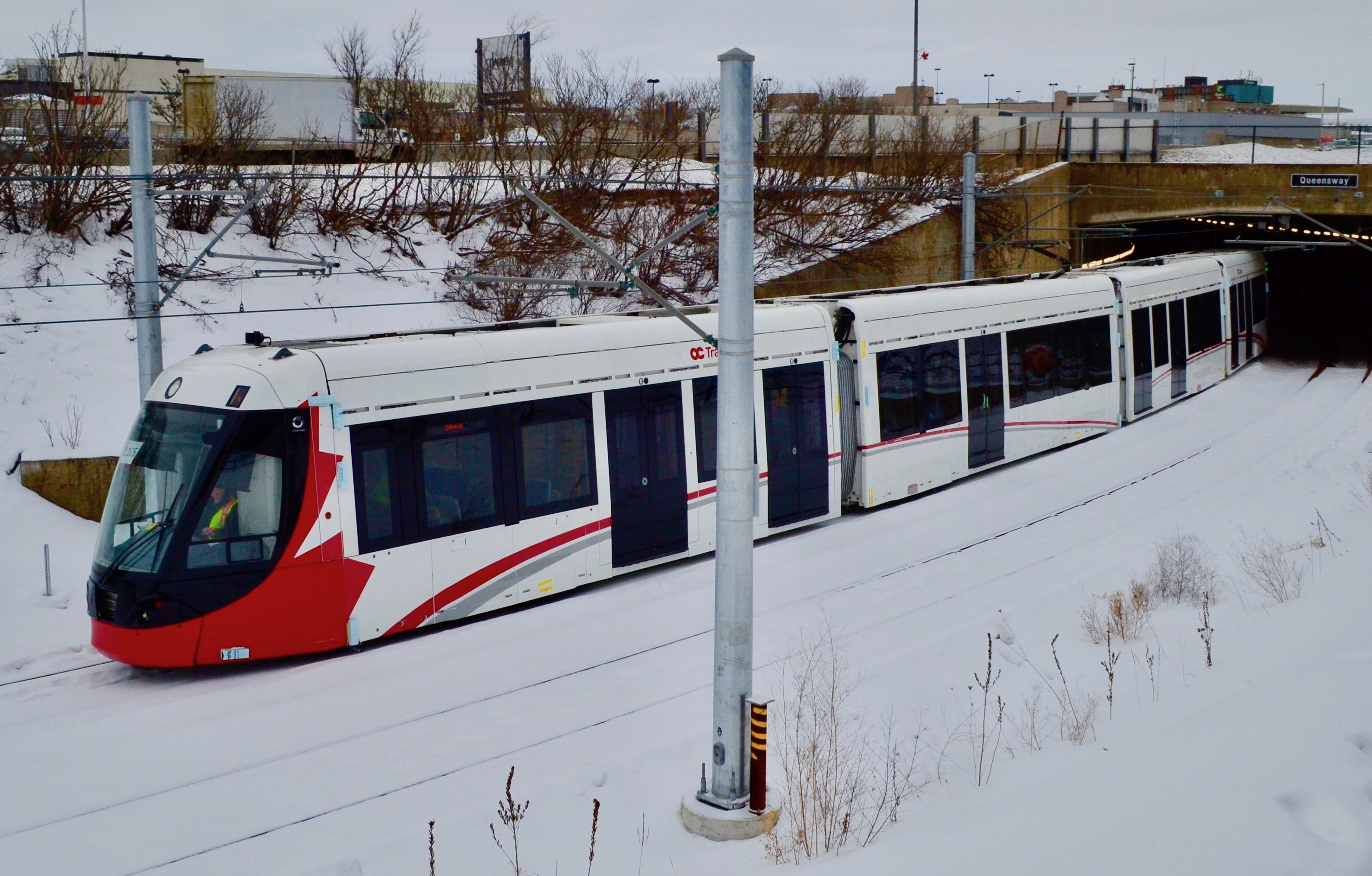 Ottawa O-Train leaving St.Laurent Station tunnel, January 2018